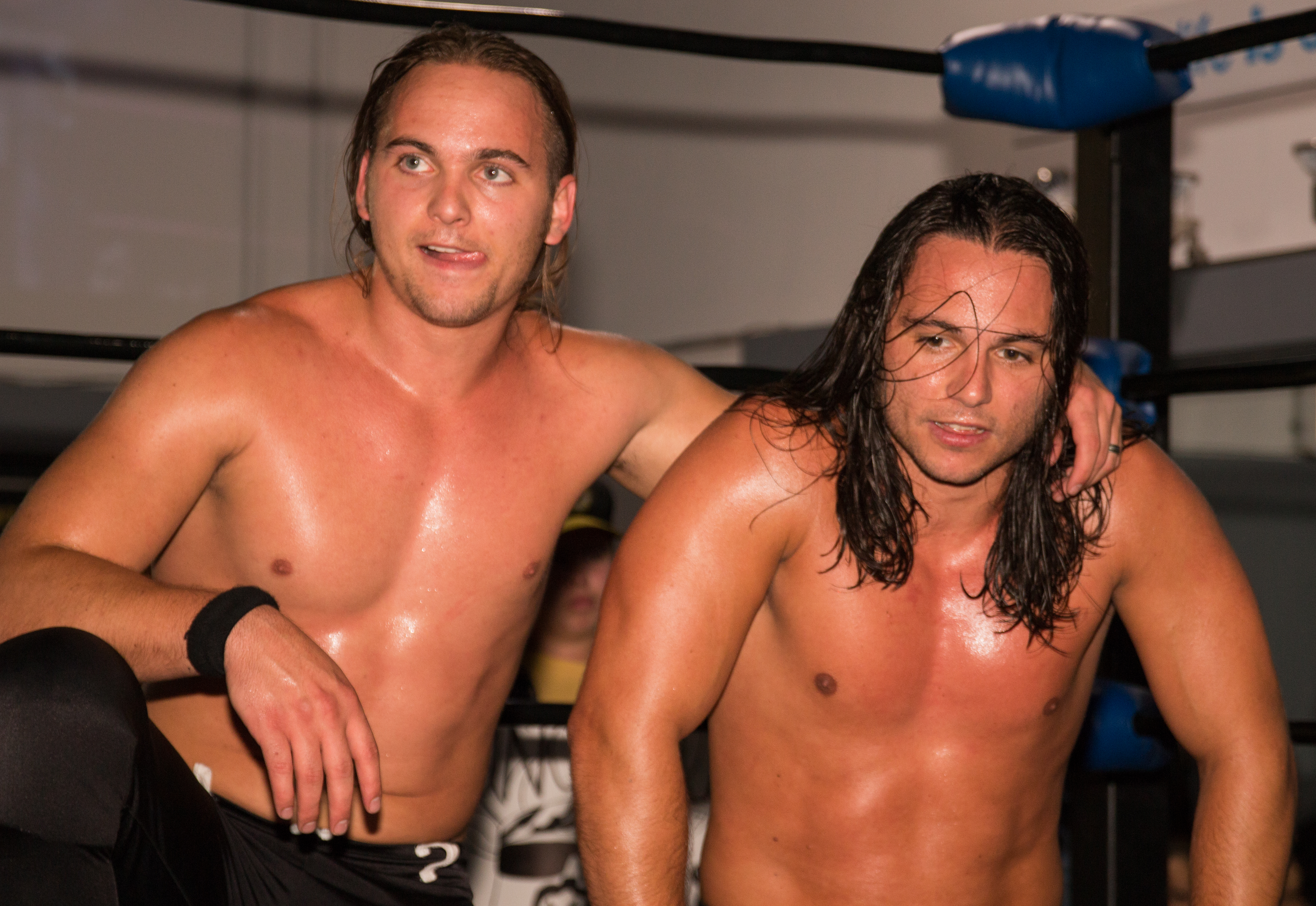 The Young Bucks - Nick Jackson (left) and Matt Jackson - at a SMASH Wrestling show in August 2014